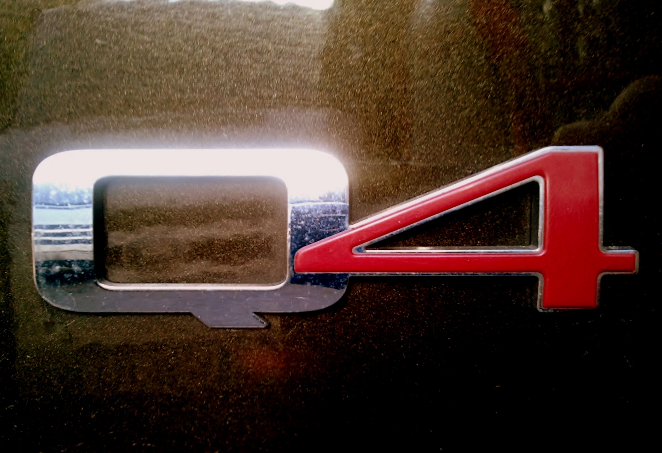 Alfa Romeo Q4